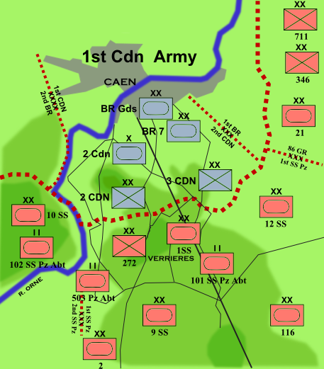 German and Allied positions around Caen and the Canadian First Army prior to Operation Spring (July 1944)